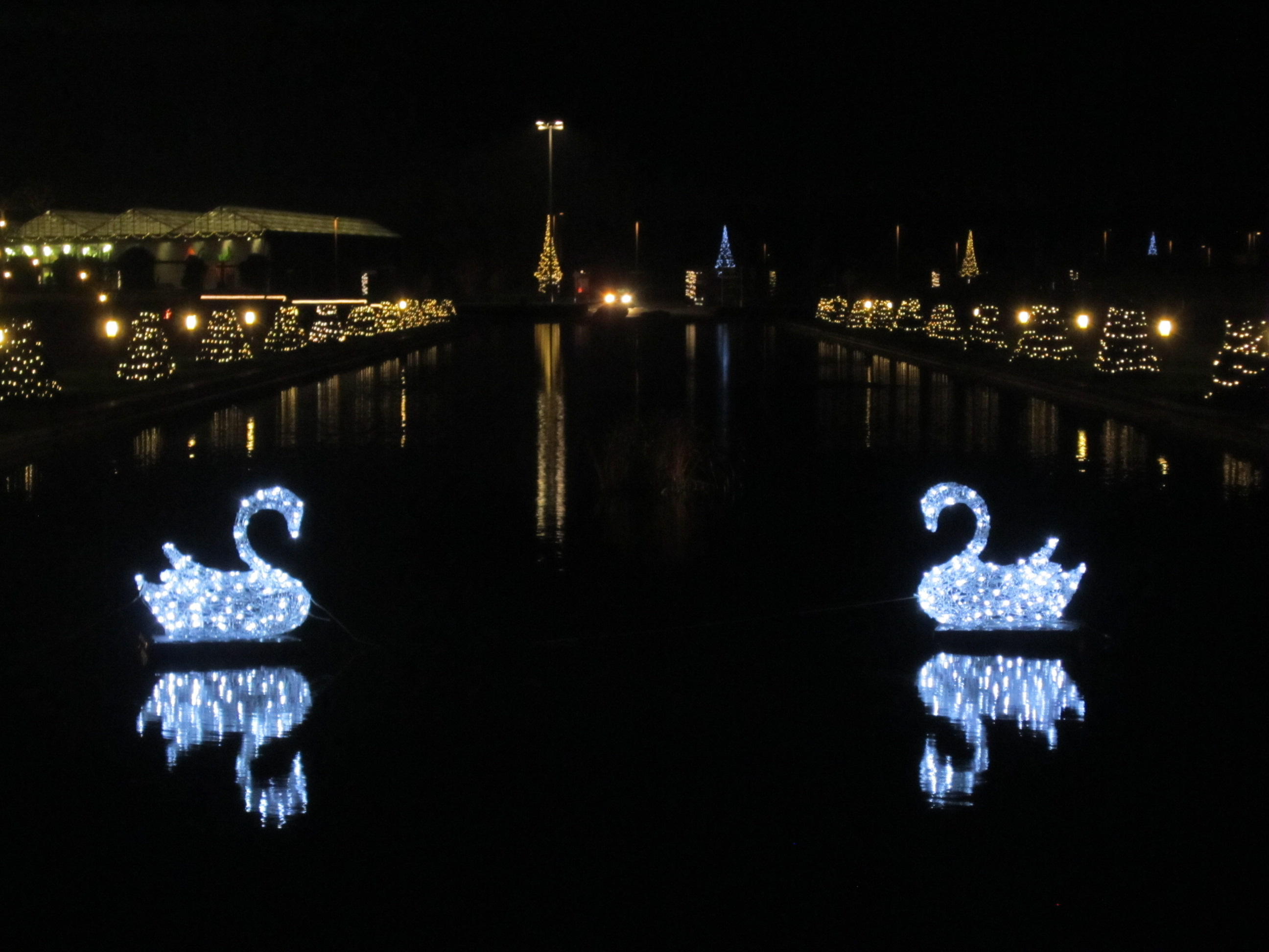 Pond between the Garden Center and Emsflower in Emsbüren